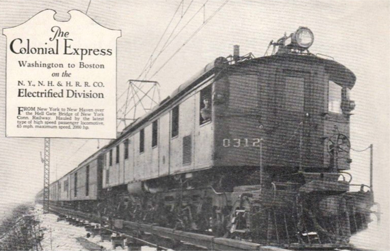 Photo of a New Haven Railroad EP-2 electric locomotive pulling the New Haven train "The Colonial Express" (Route was between Washington DC and Boston). The locomotive was built by Baldwin-Westinghouse.